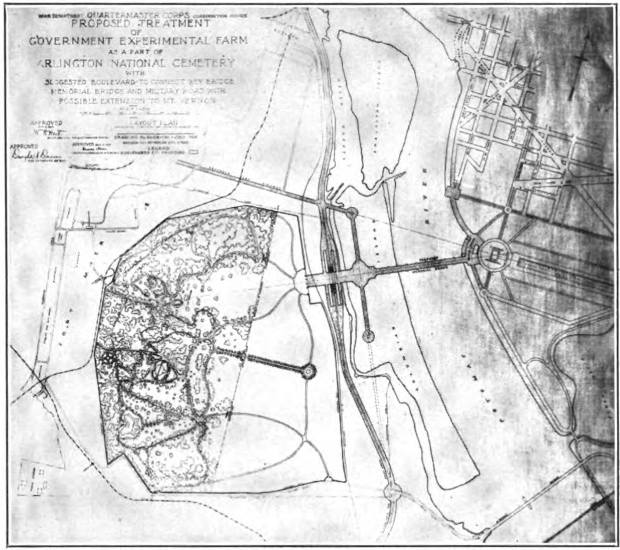 A plan for the design of Arlington Memorial Bridge across the Potomac River in Washington, D.C., in the United States. The design was proposed by the U.S. Army Quartermaster Corps, working jointly with the architectural firm of McKim, Mead & White. William Mitchell Kendall was the lead designed for the firm.